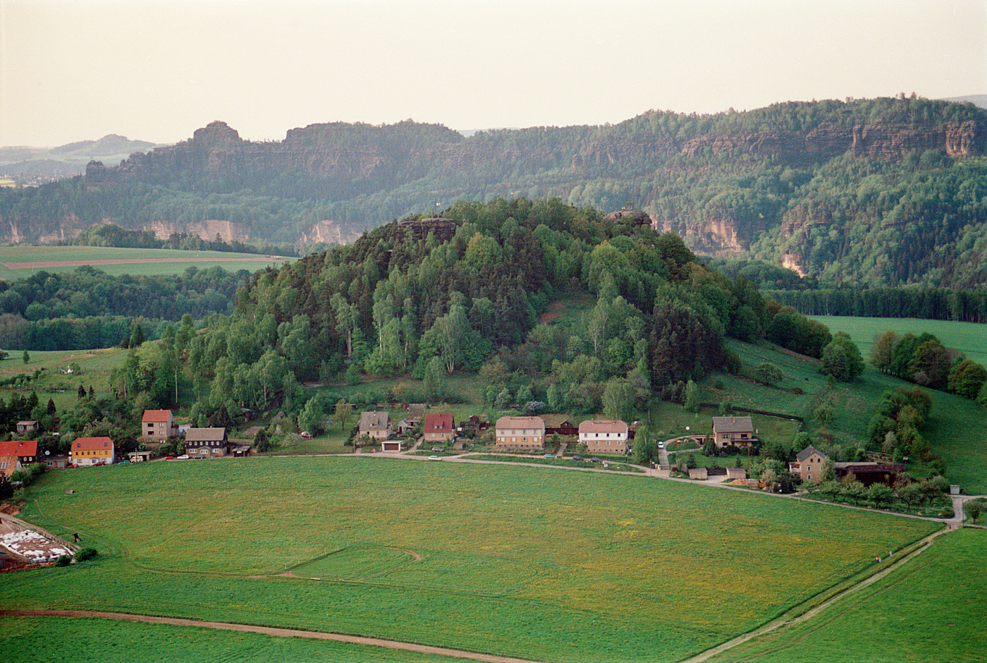 own picture, taken in 1998 mountain Kaiserkrone in Saxony Swiss picture taken from the neareby mountaon "Zirkelstein"